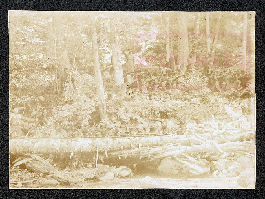 United cheta of Anastas Yankov, Hristo Tanushev and Nikola Lefterov